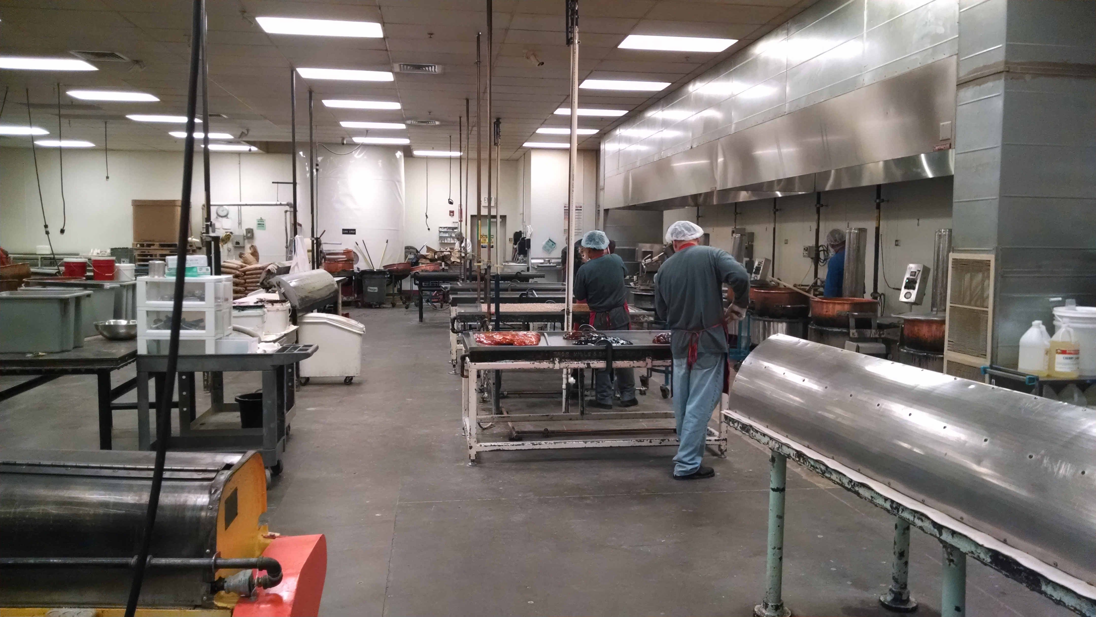 Inside the Hammond's Candies factory in Denver, Colorado.